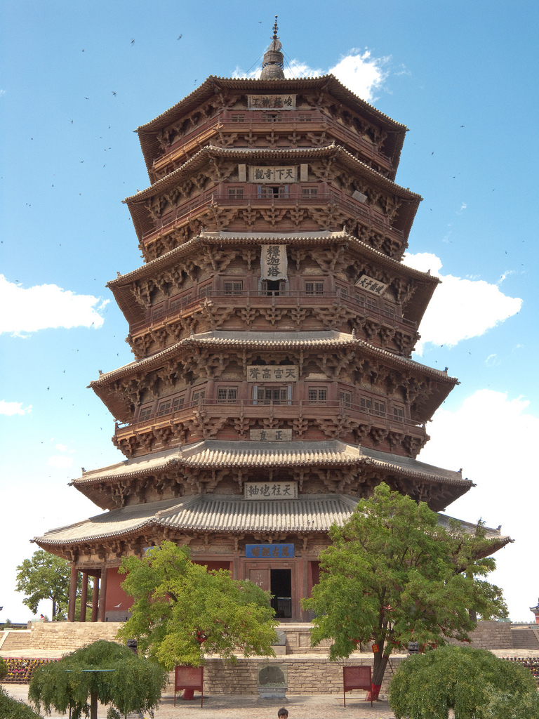 The Pagoda of Fogong Temple in Shanxi province, China.